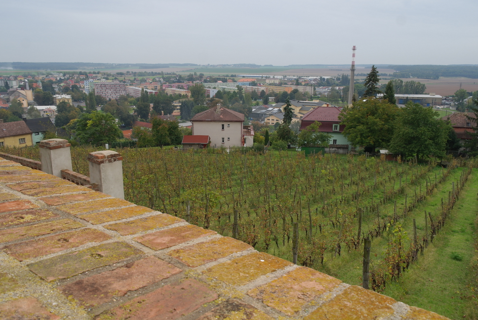 Chateau Benátky nad Jizerou, Husovo sq. 49, Benátky nad Jizerou Chateau park. The view of the surrounding area